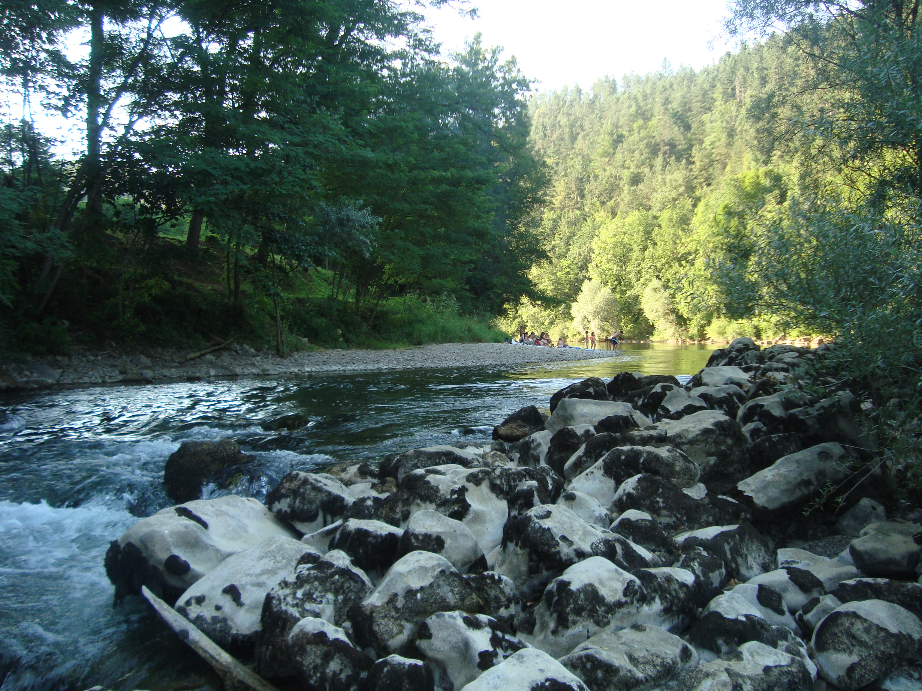 selo Lesci